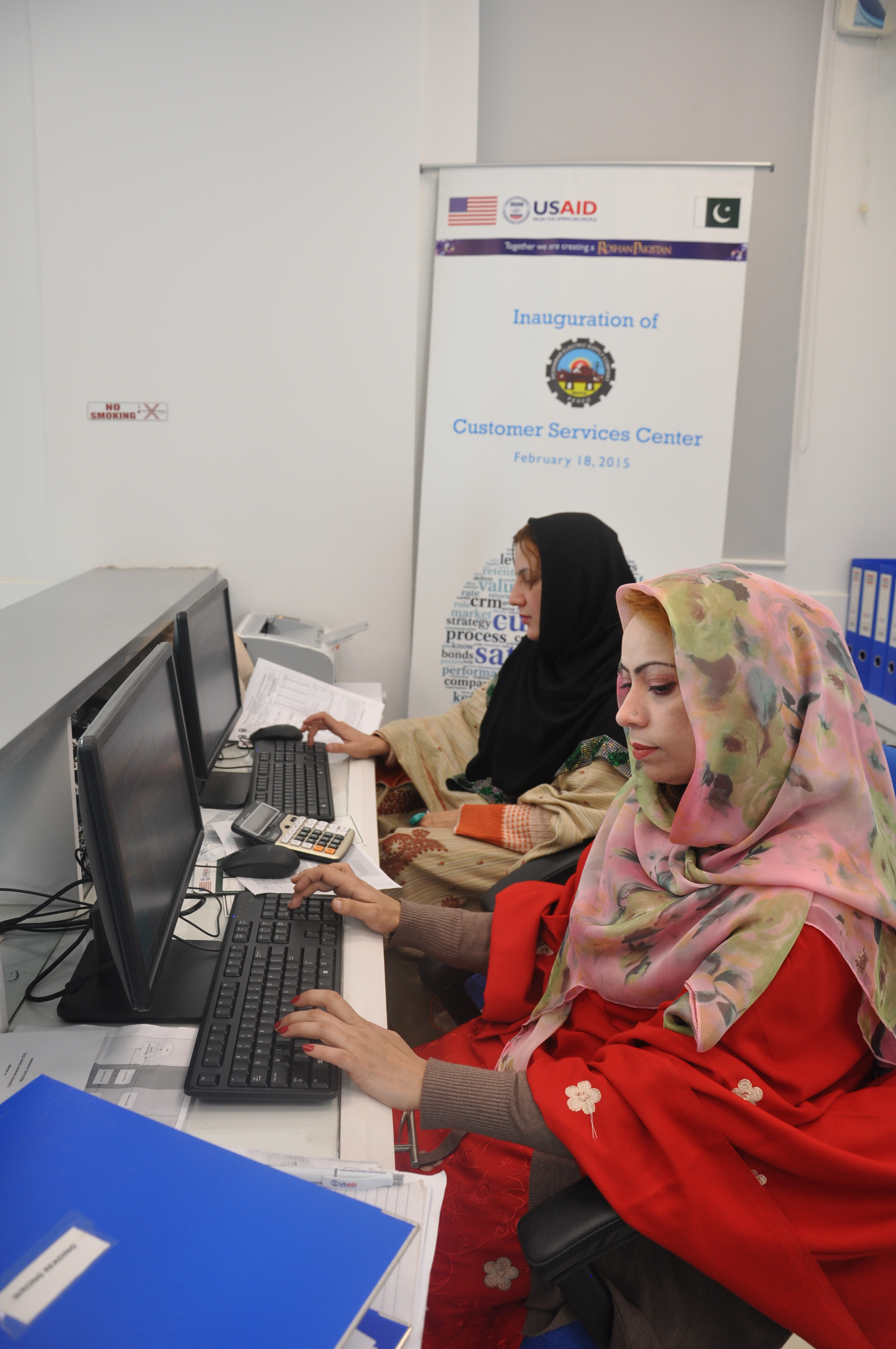 Customer Care Center representatives at work